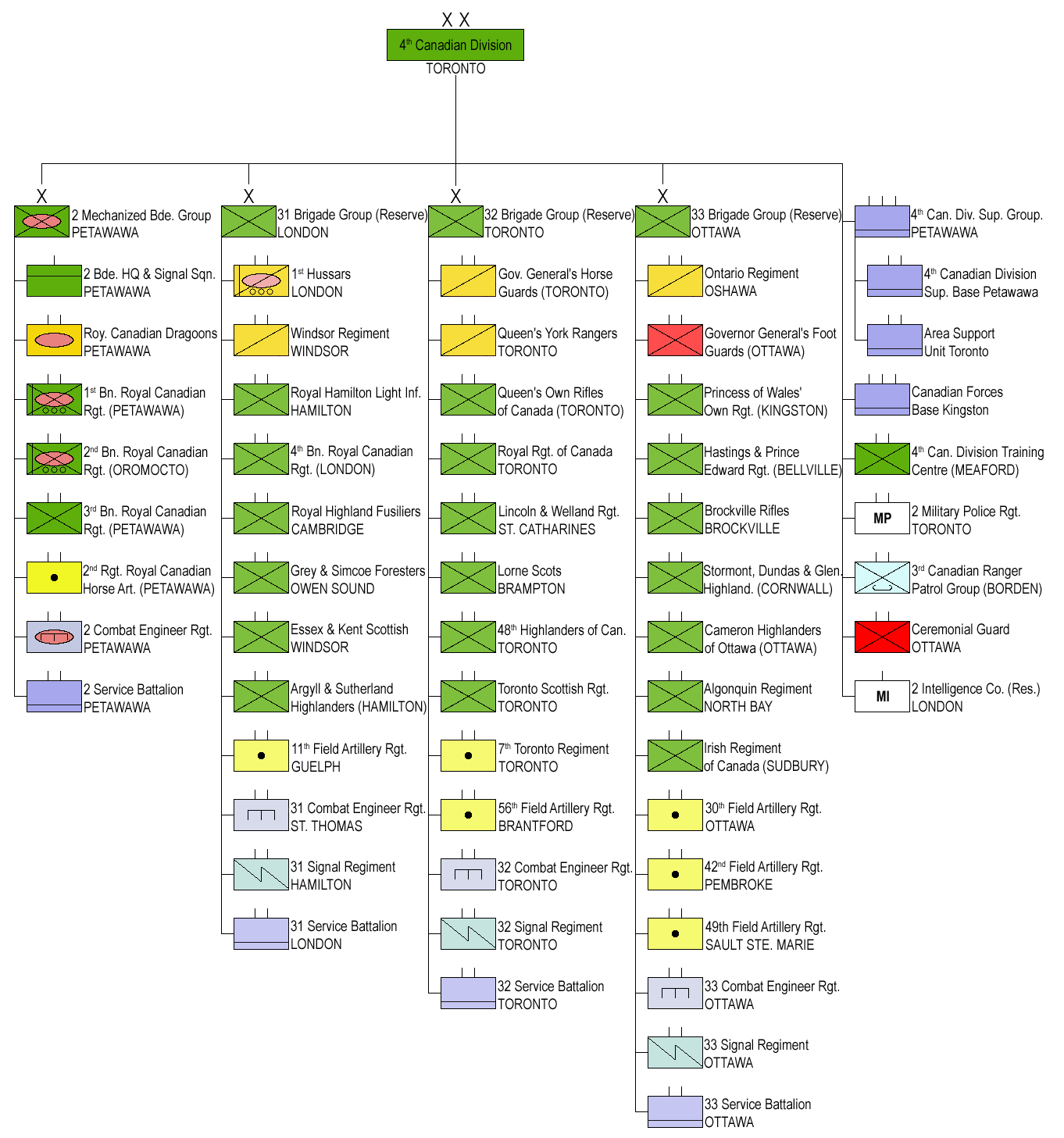 Structure of the 4th Canadian Division 2013